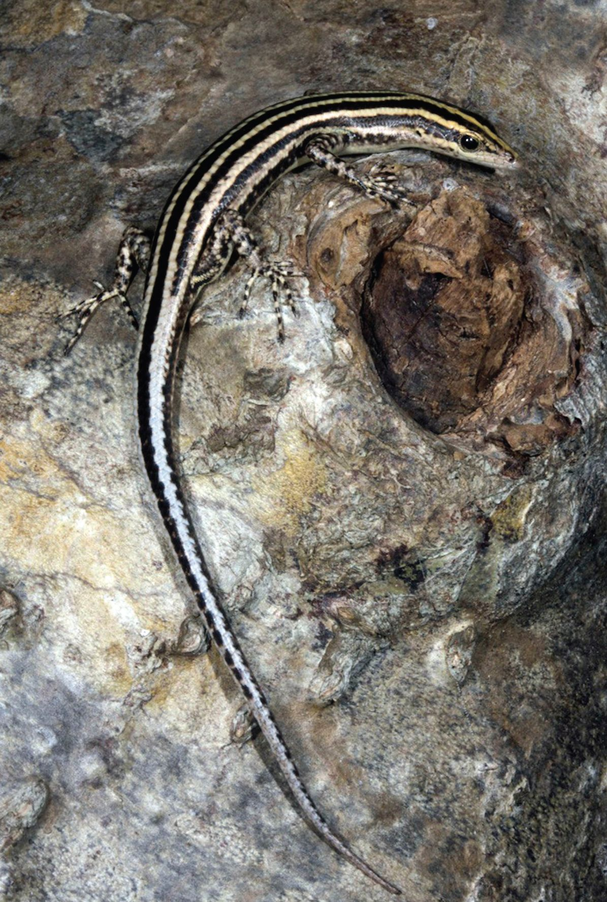 Cryptoblepharus leschenault. Male from near Loré, Lautém District.